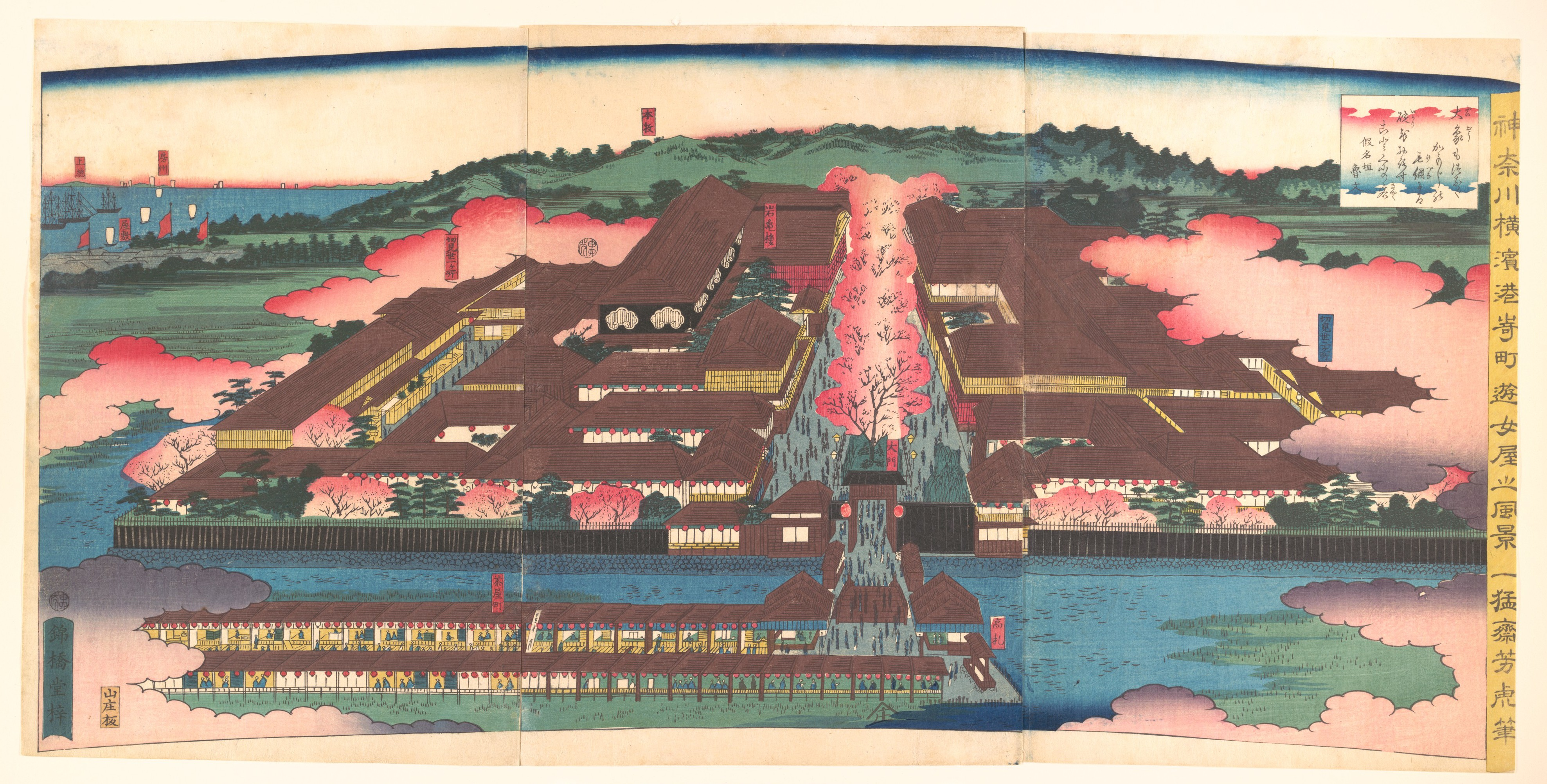 Japan; Print; painted by Utagawa Yoshitora, comic tanka poem by Kanagaki Robun, 4th month, 1864